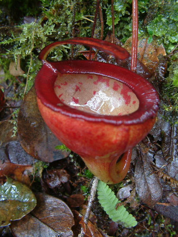 Nepenthes jamban